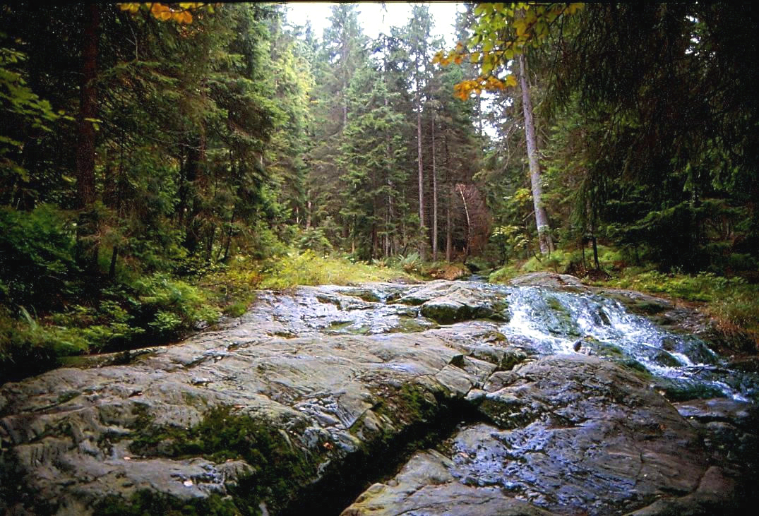 Der Seebach am Kleinen Arbersee im Bayerischen Wald